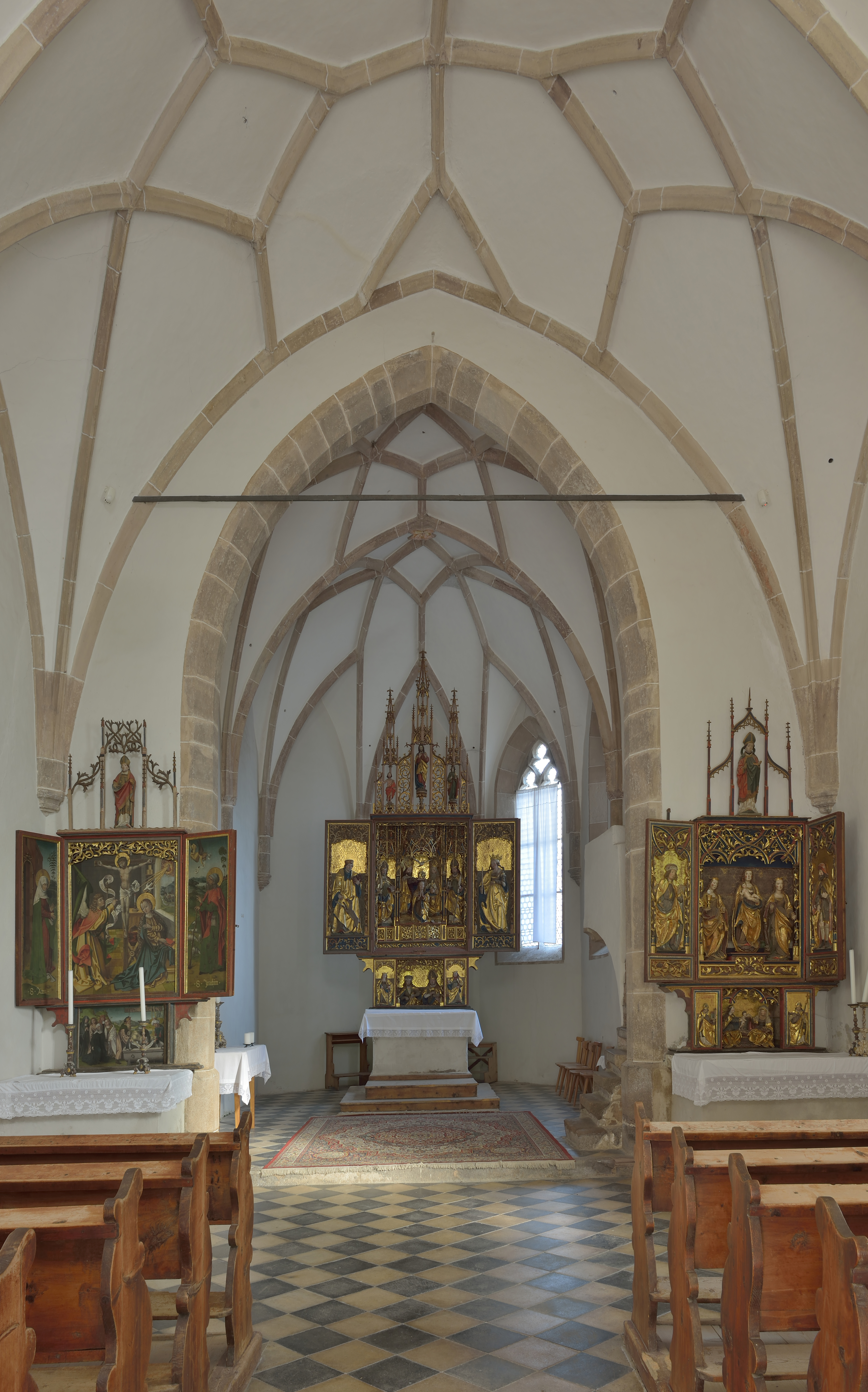 Church of Saint Ingenuinus and Saint Albuinus in Saubach, Barbian